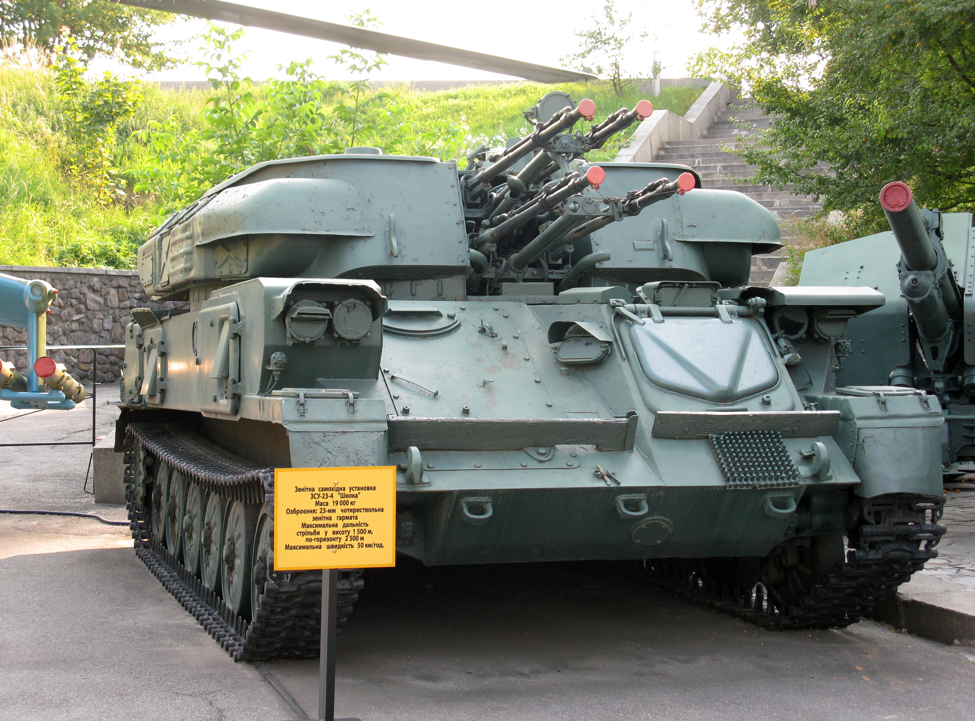 ZSU-23-4 Shilka at the National Museum of the Great Patriotic War in Kiev, Ukraine.